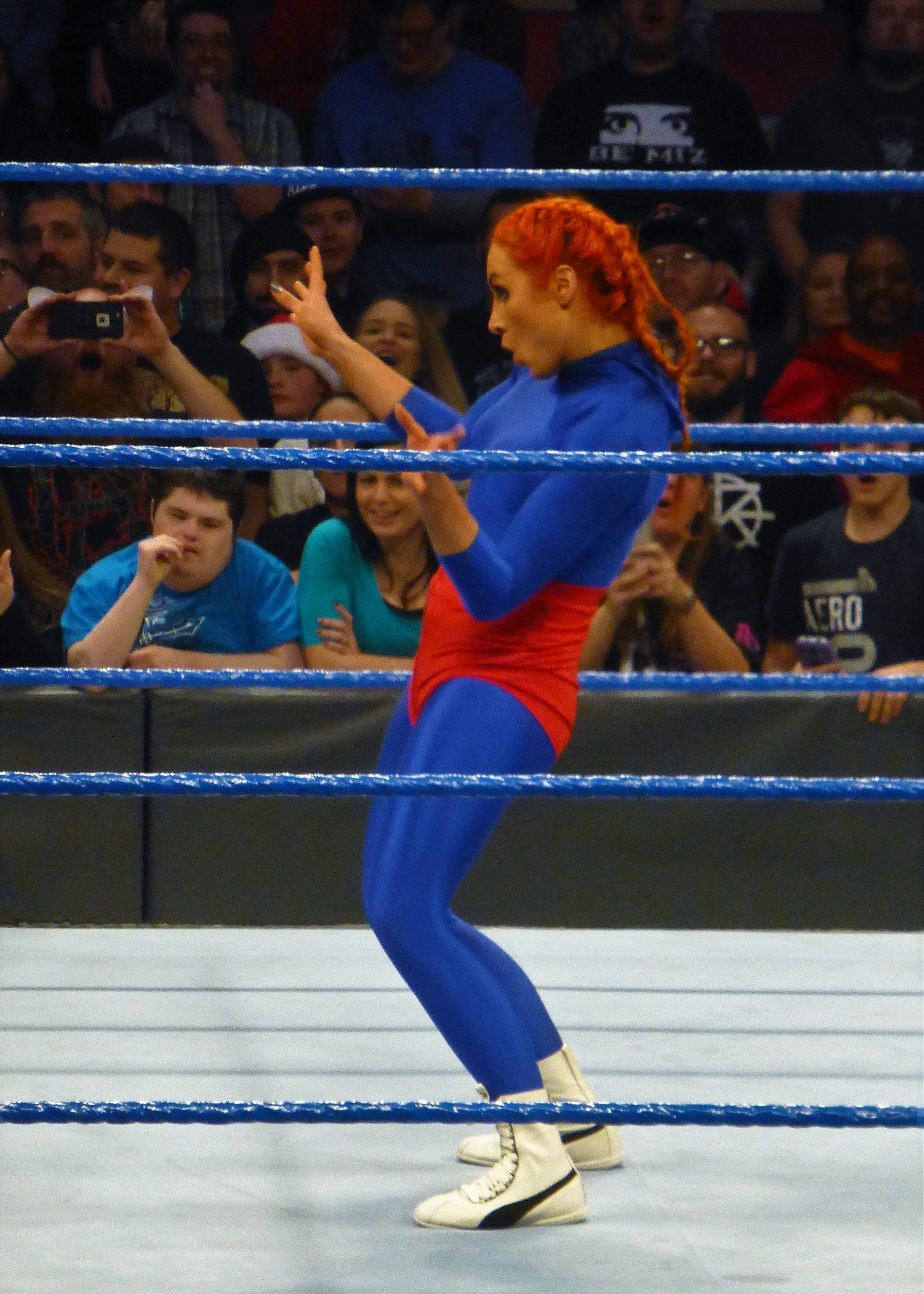 La Luchadora removes her mask to reveal she's Becky Lynch